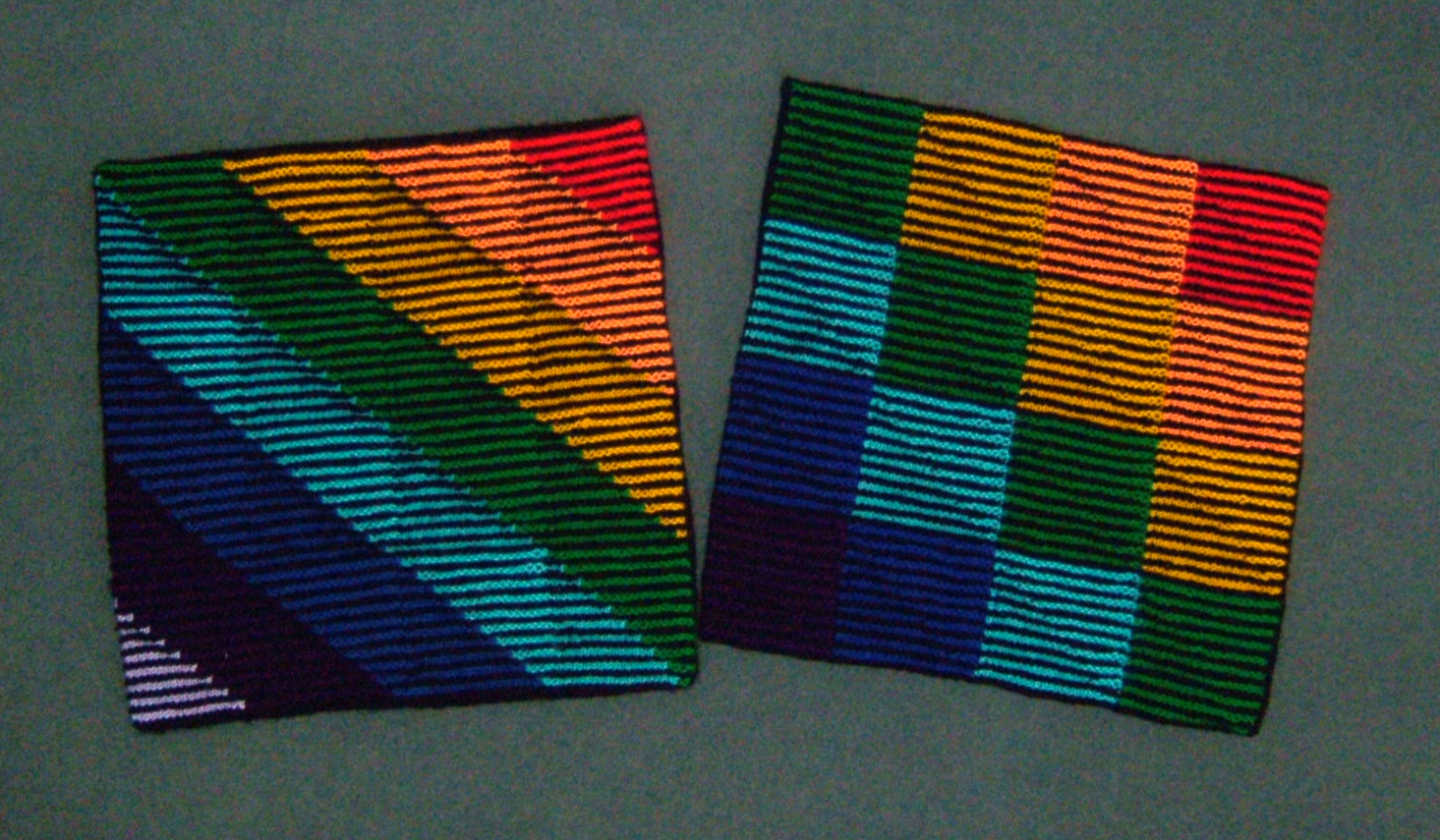 Two illusion cushions seen from directly in front. Designed and knitted by Pat Ashforth in 2010.